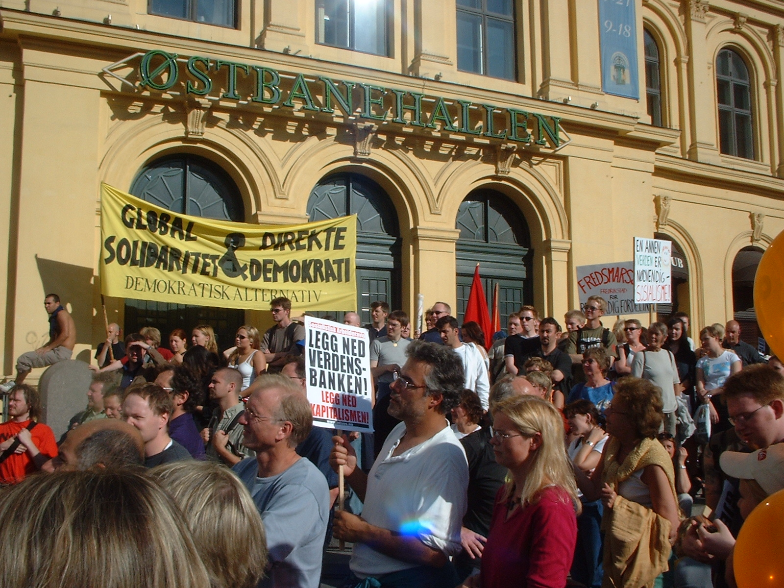 from the demonstrations in oslo during the world bank conference in june 2002oslo2002-2.jpg